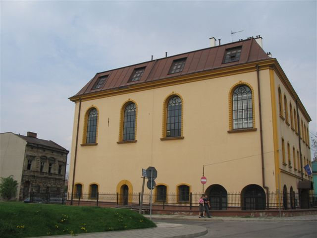 Big Synagogue in Jarosław